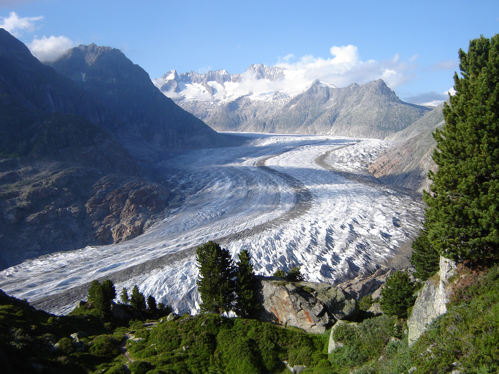 The Aletsch Glacier. Swiss Pines (Pinus cembra) are visible in the foreground.